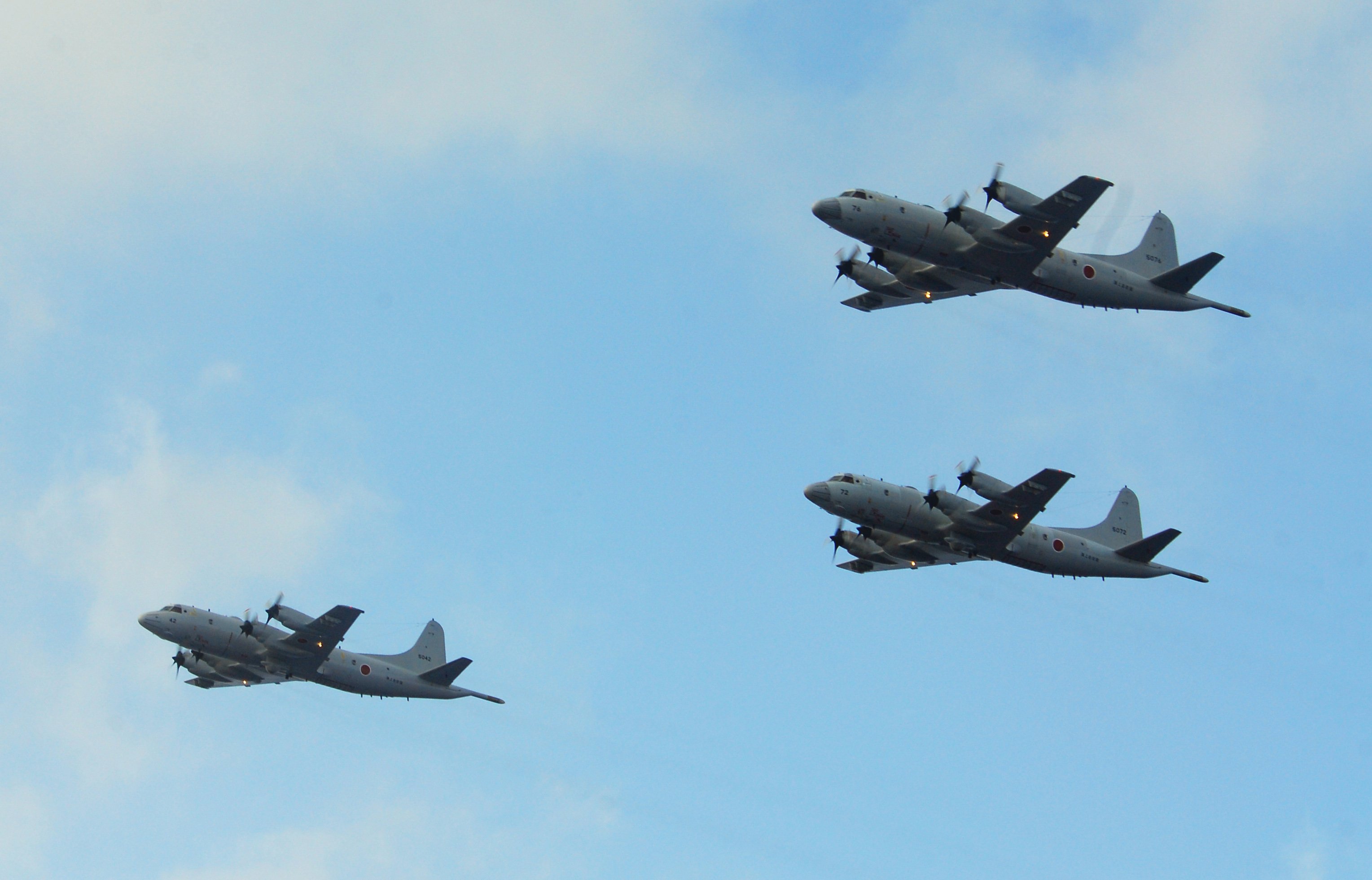 PACIFIC OCEAN (Nov. 4, 2011) Japan Maritime Self-Defense Force P-3 Orion aircraft fly overhead during a formation in Annual Exercise 2011. Annual Exercise is a bi-lateral field training exercise designed to practice and evaluate the coordination procedures and interoperability elements required to respond to the defense of Japan and the Asia-Pacific region. (U.S. Navy photo by Mass Communication Specialist 2nd Class Ian W. Anderson/Released)